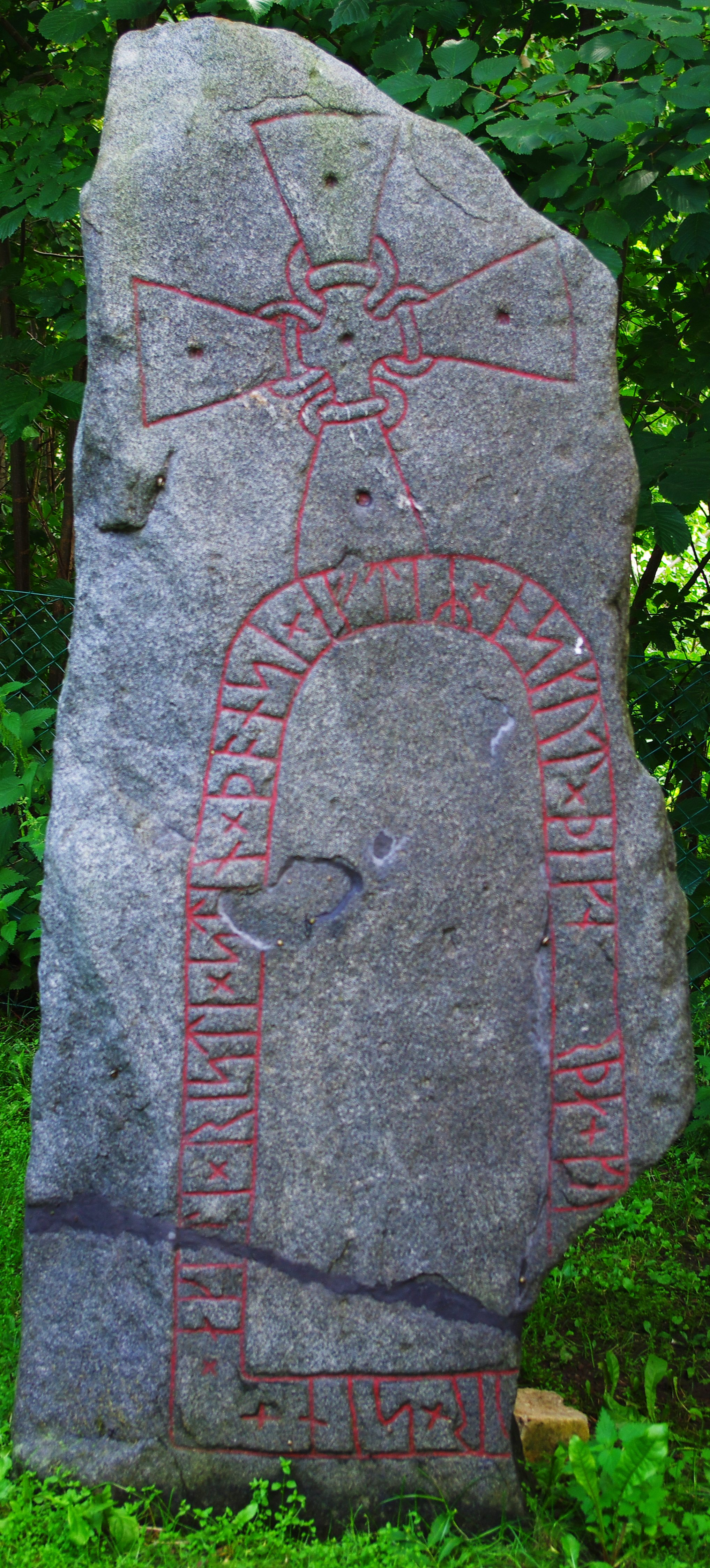 Vinköl village and parish in Skåning hundred in Västergötland and Skara municipality in Västra Götalands län, Sweden. The runestone Vg 74 on the schoolyard at Vinköl school.